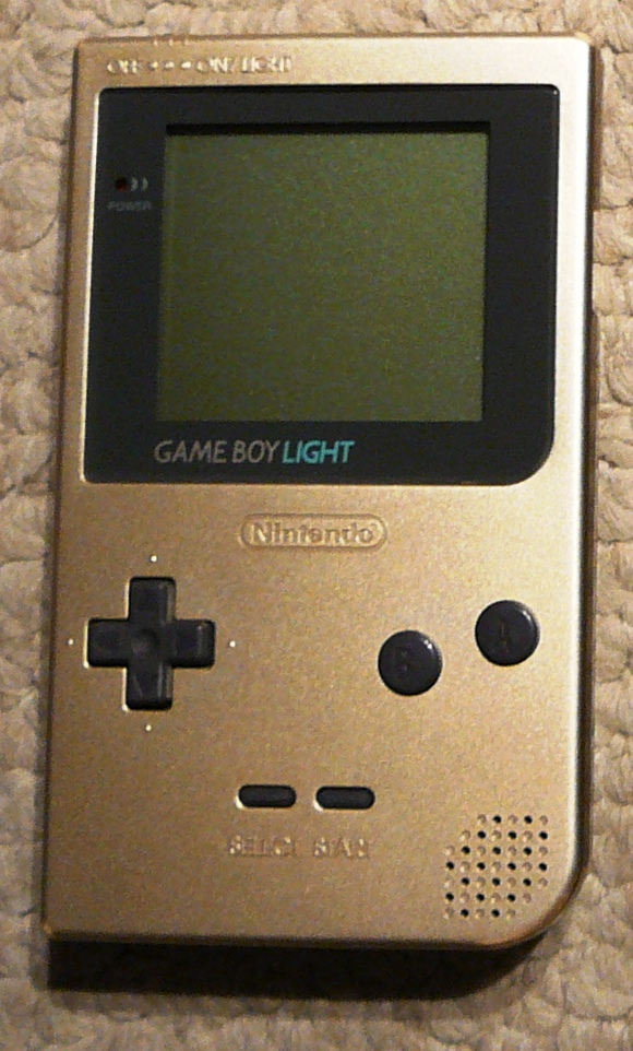 A photo of a gold-colored Game Boy Light gaming system.